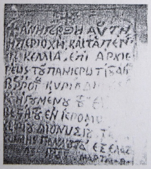 Palatitsia Monastery Inscription 1837